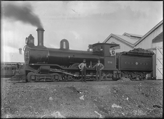 Midland Railway of Western Australia B class locomotive no B6 at Watheroo, Western Australia.